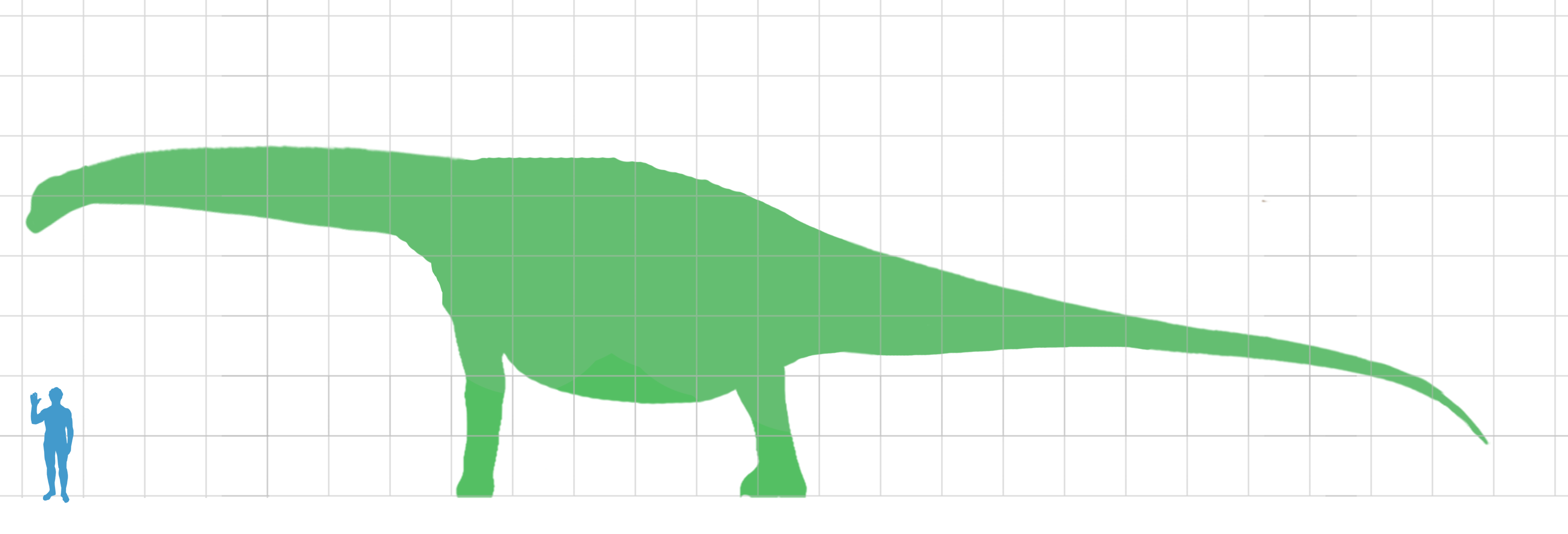 Size comparison of the sauropod Turiasaurus and a human. Grid segment = 1m.